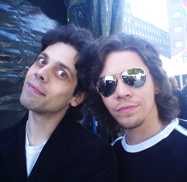 Private picture of Pegasus ...